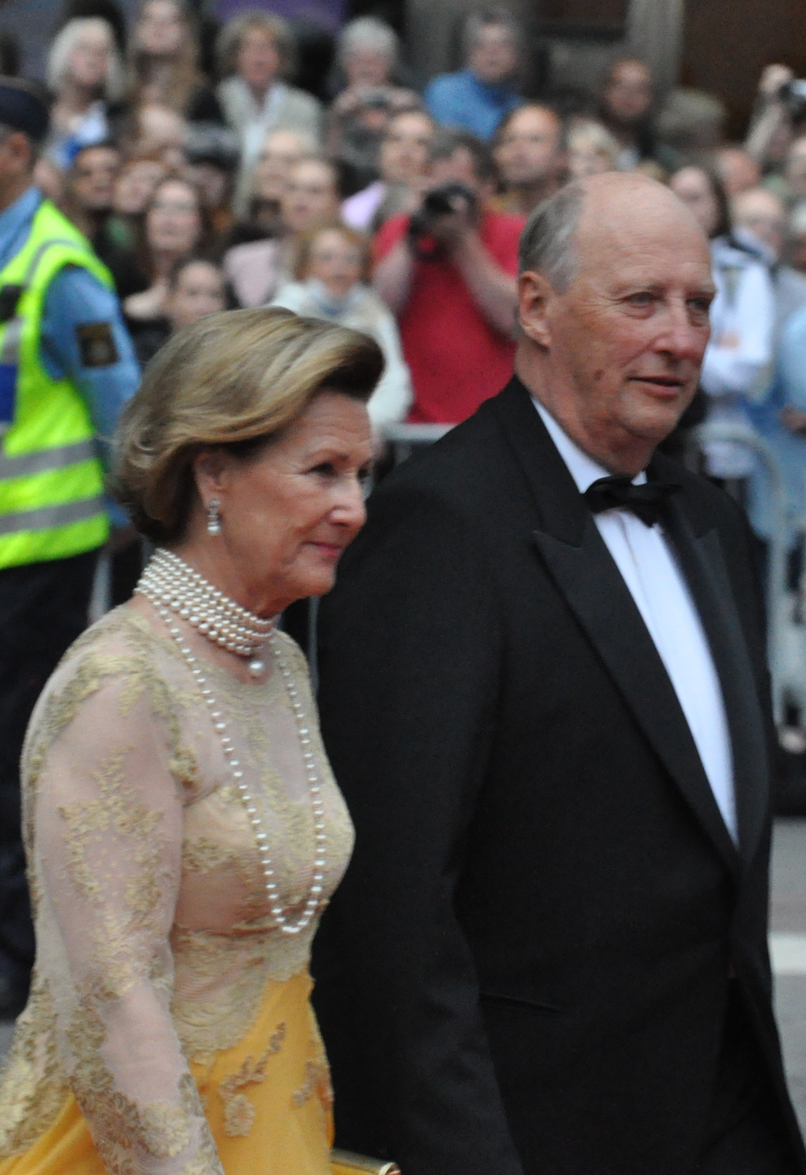 Wedding of Victoria, Crown Princess of Sweden, and Daniel Westling; Arrival of members for the Gouvernment and Swedish and foreign guests of hounour to the Riksdag's Gala Performance at Konserthuset. Harald V of Norway and Sonja of Norway.